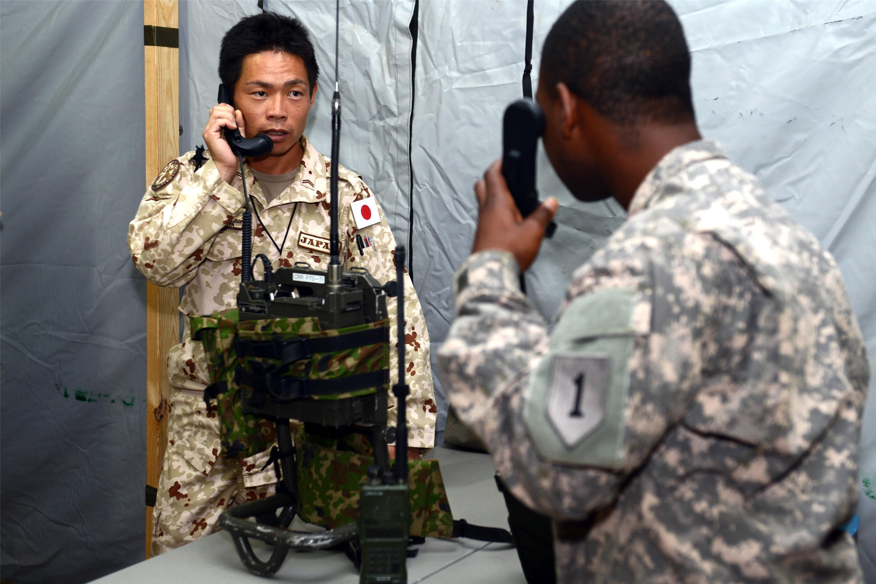 Japan Ground Self-Defense Force Sgt. 1st Class Yasuyuki Iwashita, left, and U.S. Army Sgt. Roderick Brown, the communications section chief with the 1st Battalion, 63rd Armor Regiment, 2nd Armor Brigade Combat Team, 1st Infantry Division, test radio equipment July 5, 2013, at Camp Lemonnier, Djibouti. U.S. and Japanese service members met to develop an emergency communications system to use in the event of a disaster. Iwashita was assigned to the Japan Self-Defense Force Deployment Air Force for Counterpiracy Enforcement unit, a Combined Joint Task Force-Horn of Africa coalition partner. (U.S. Navy photo by Mass Communication Specialist 1st Class Tom Ouellette/Released)